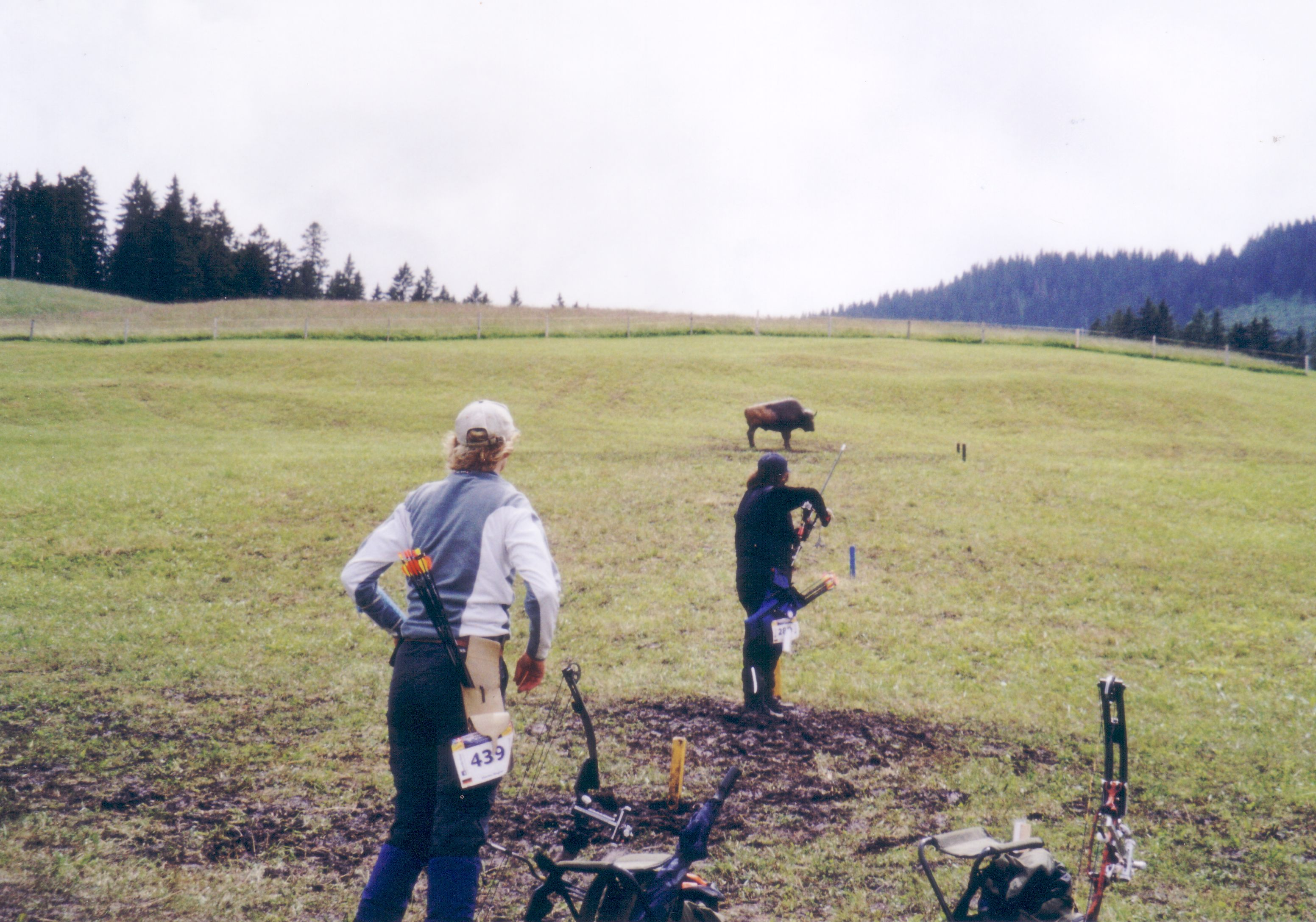 Archers with compound bows on the World Bowhunter Championship in Wildhaus, Switzerland 2007